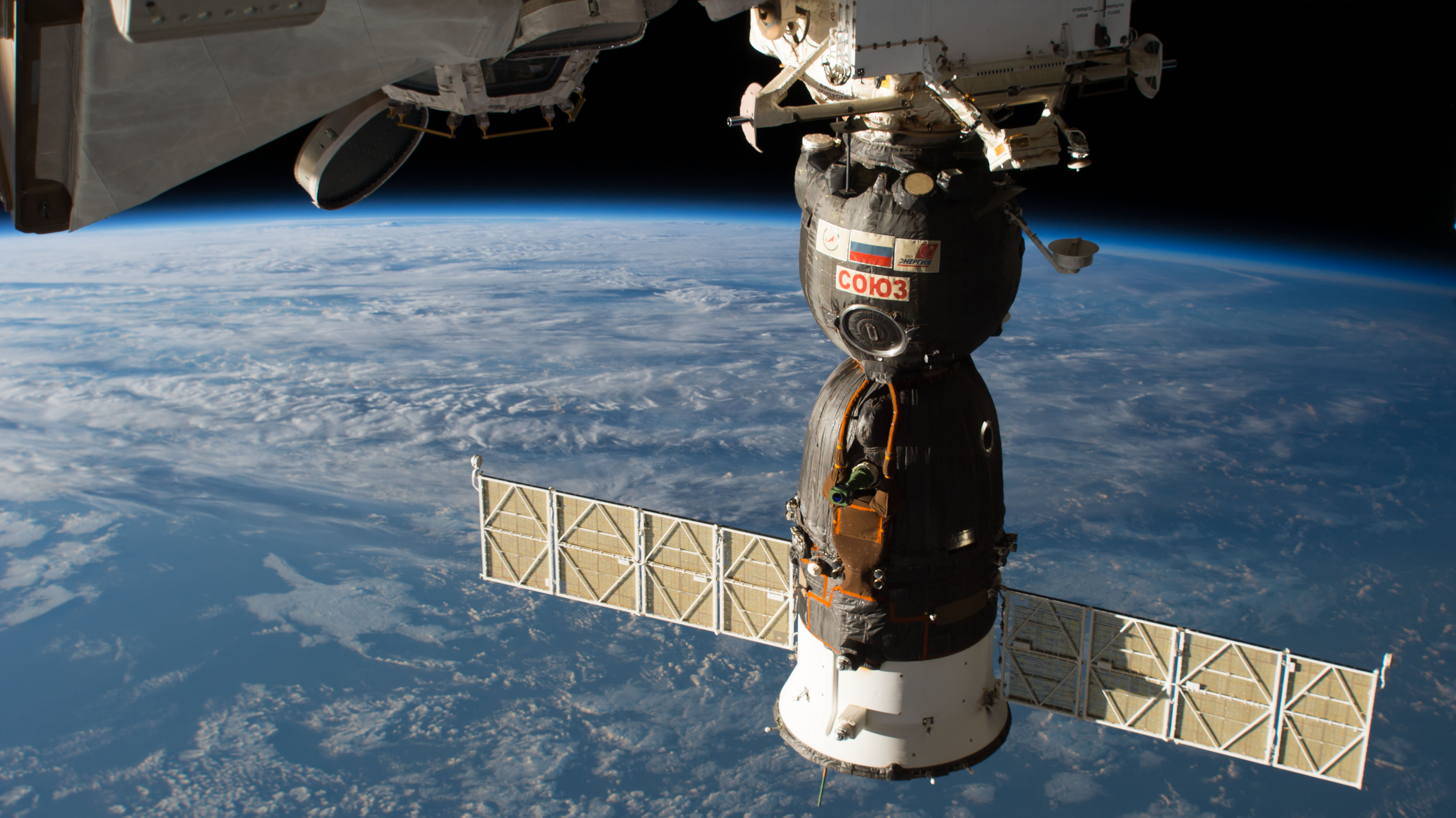 The Soyuz MS-09 spacecraft is pictured docked to the Rassvet module on the Russian segment of the International Space Station as the orbital complex was flying 253 miles above the North Pacific Ocean south of Alaska's Aleutian Islands.